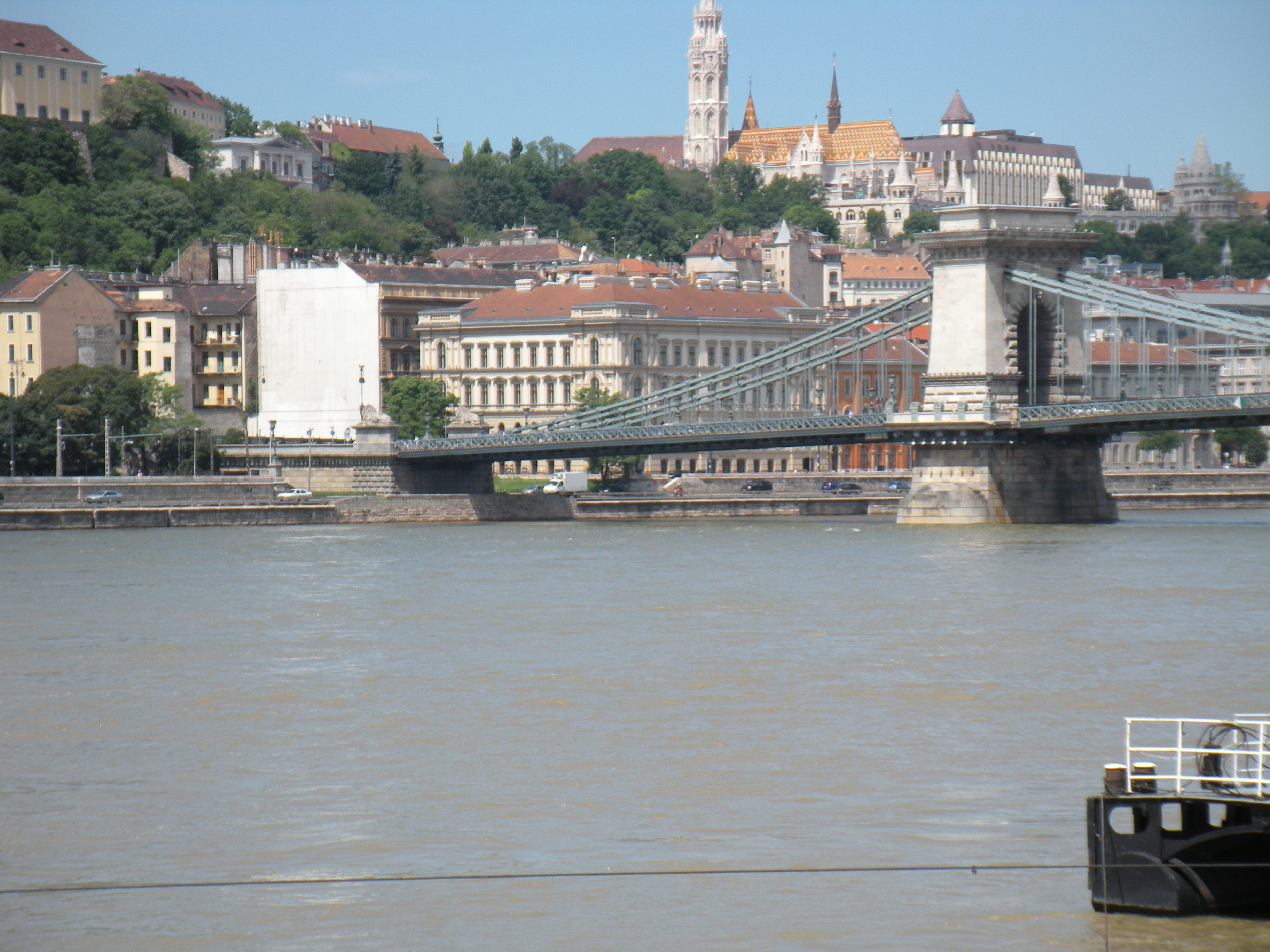 The Danube River and the Chain Bridge in Budapest, Hungary